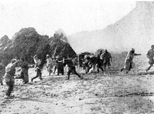 Photo of the villagers fleeing the erupting volcano from the 1914 film The Wrath of the Gods.